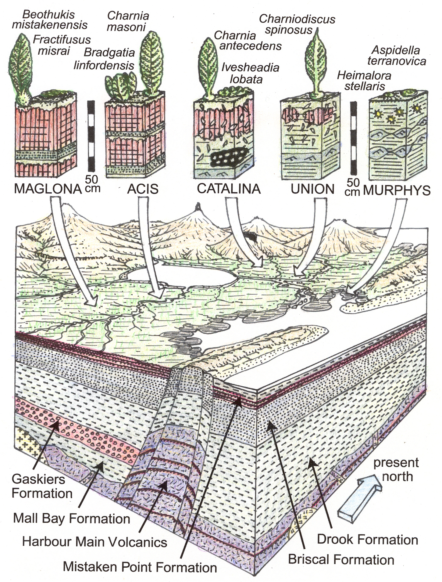 Reconstruction of fossil soils and their biota in the Mistaken Point Formation of Newfoundland